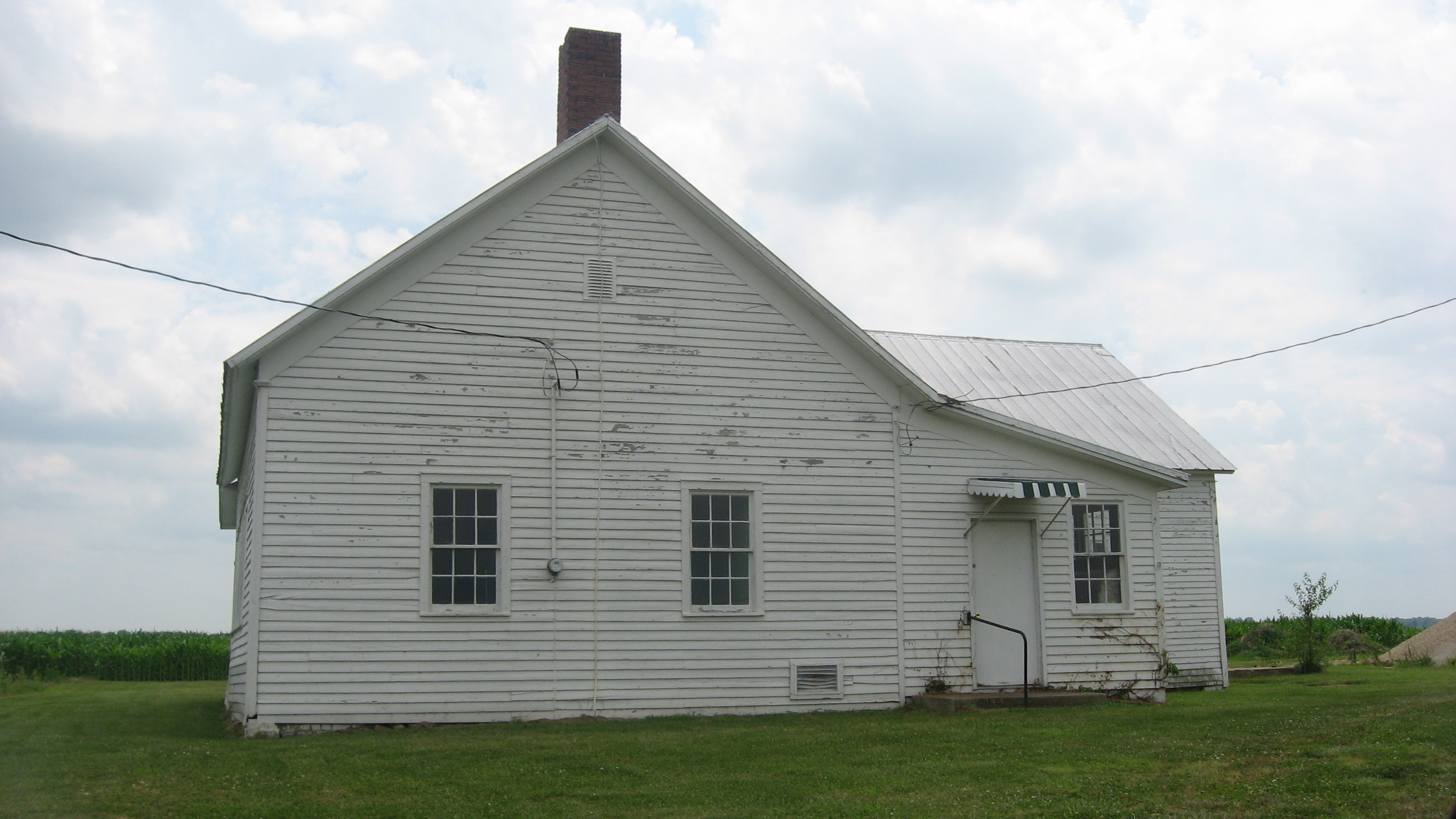 Front of the Clarksburg Schoolhouse, located on the southern side of County Road 800N west of Clarksburg in Clarksburg Township, Shelby County, Illinois, United States. Built in 1892, it is listed on the National Register of Historic Places.